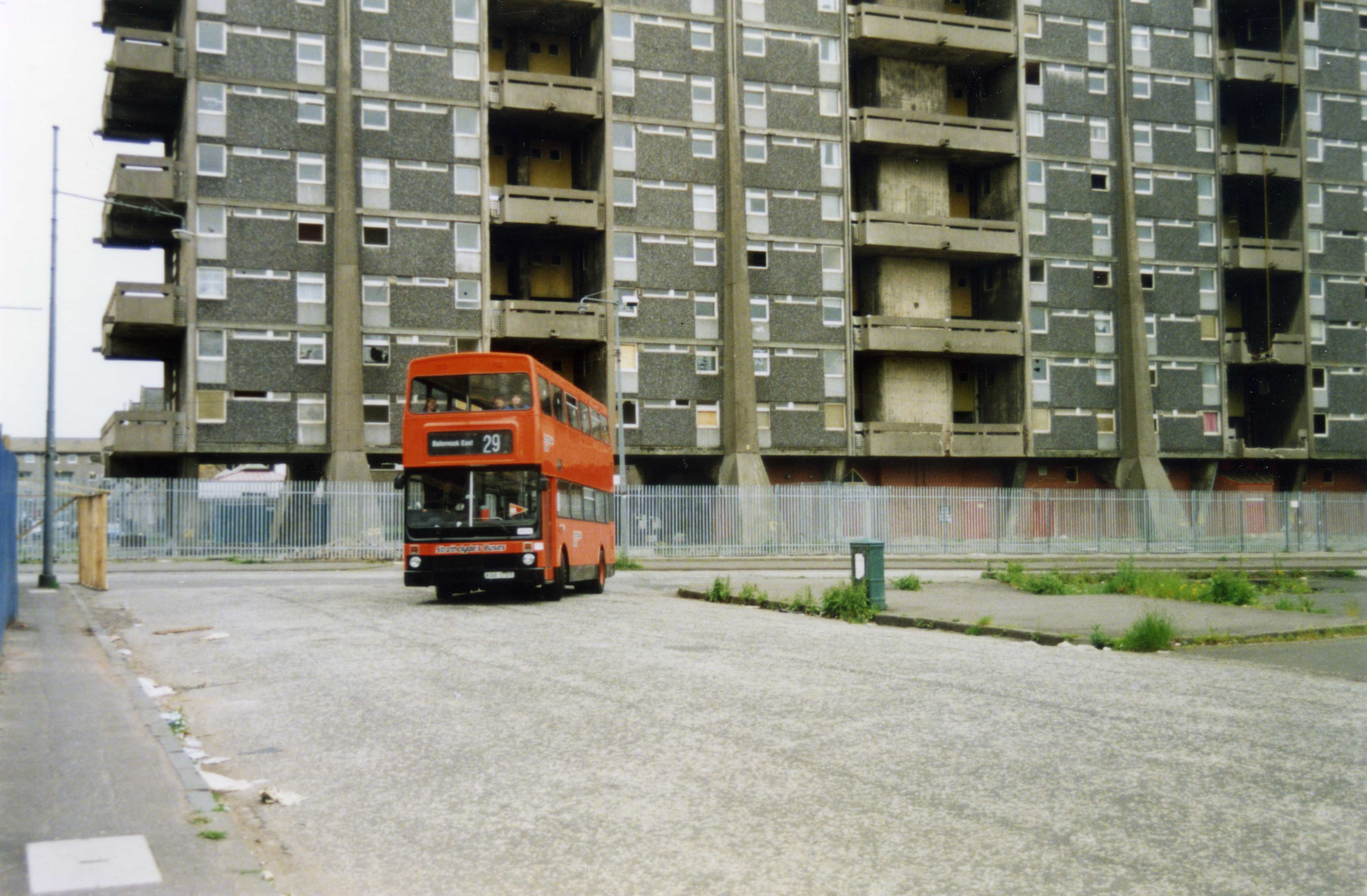 Queen Elizabeth Flats, shortly before they were demolished.